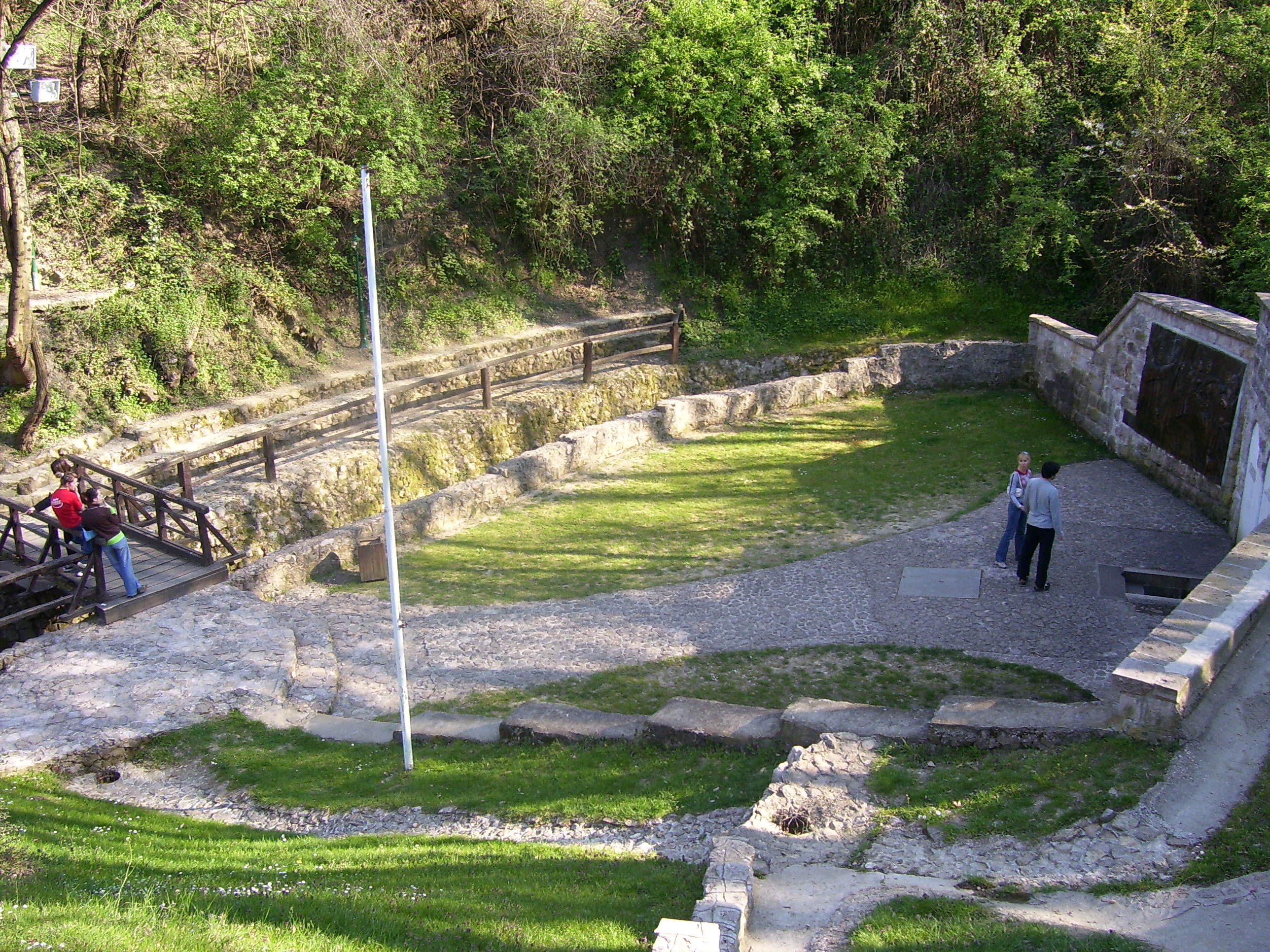 Marićevića jaruga, in Orašac, Serbia